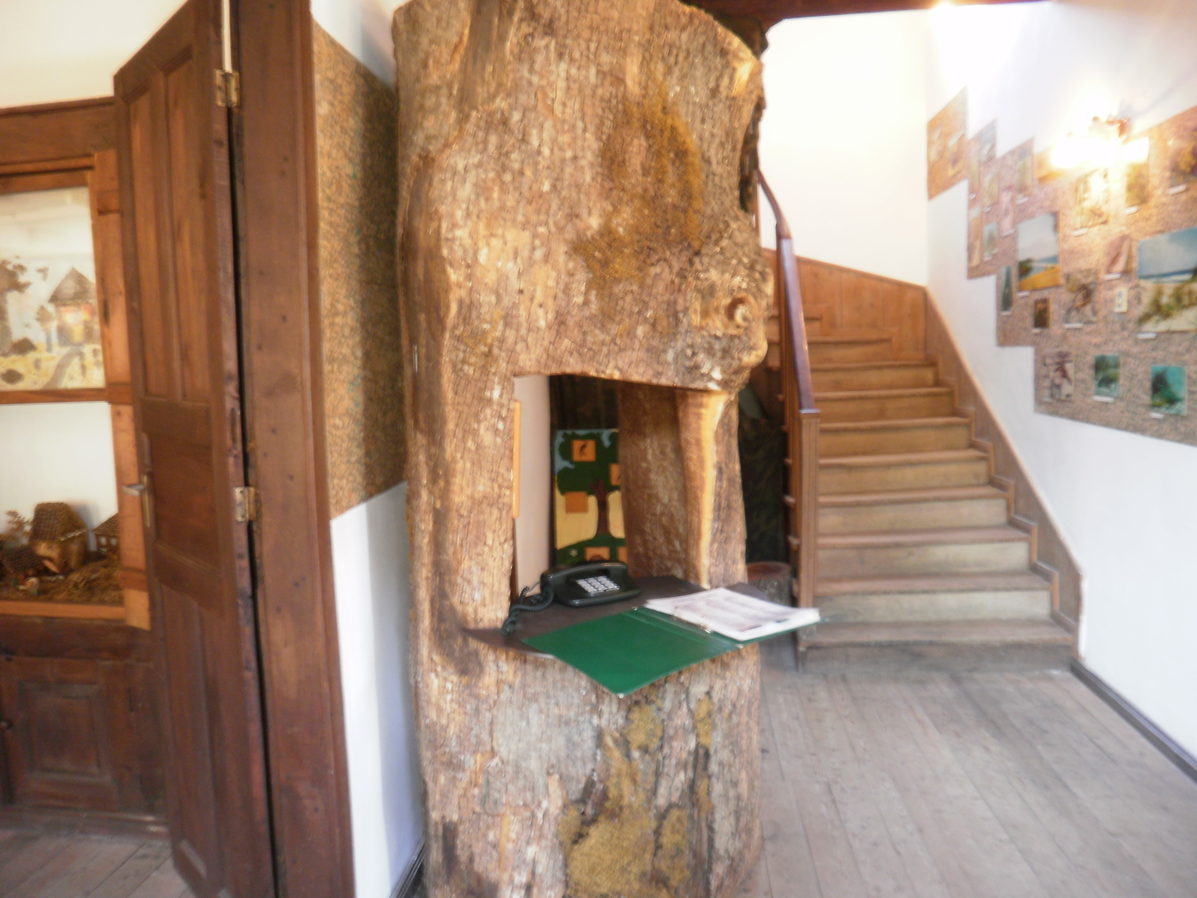 History museum, Malko Tarnovo, Bulgaria.